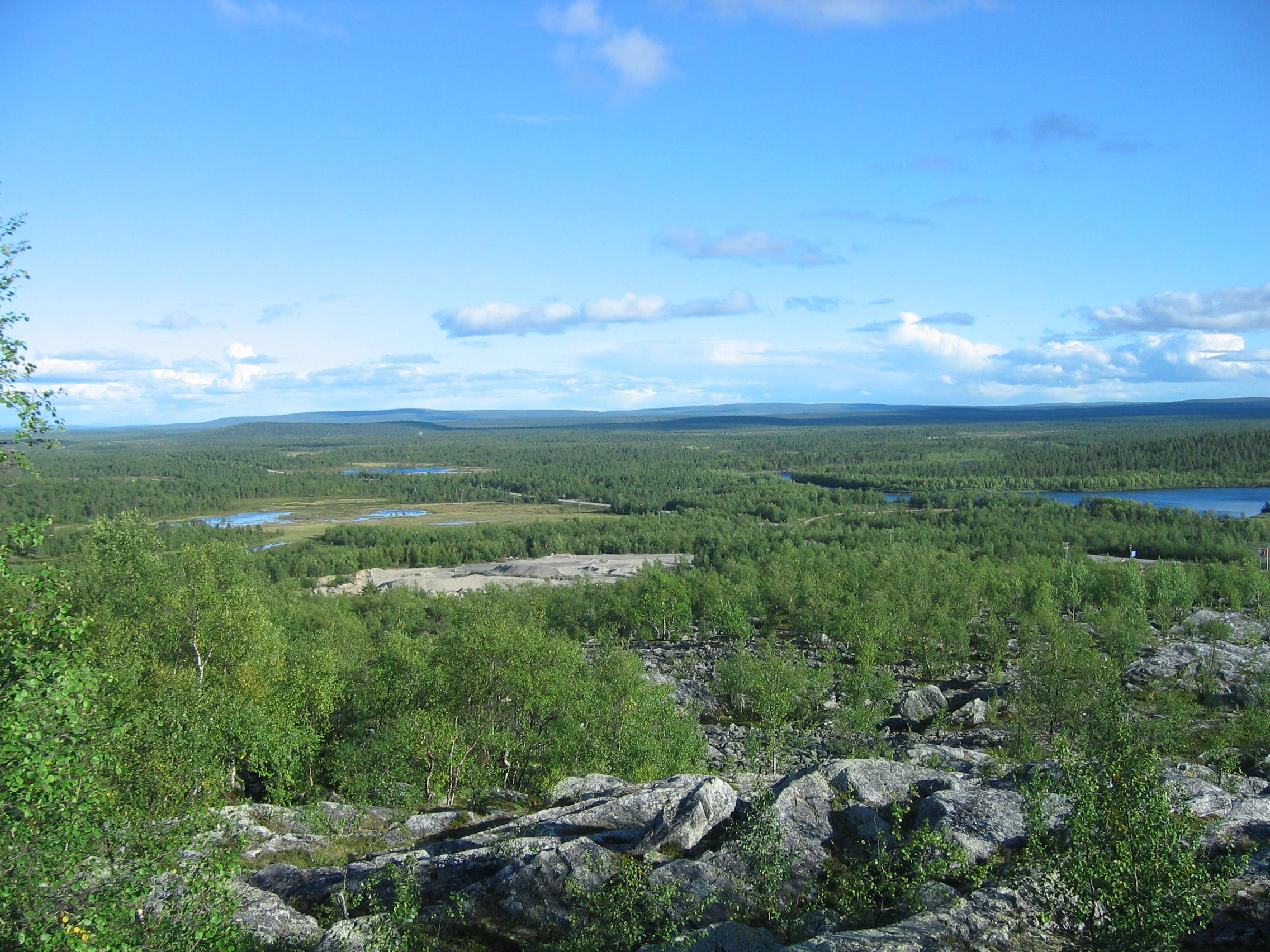 A view towards South-East from Sturmbock-Stellung, a German fortification built during the Second World War in Enontekiö, Finland.